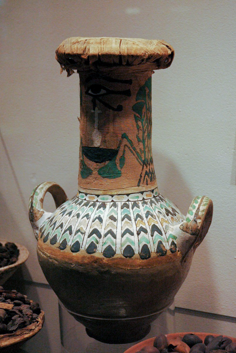 Two-handled Pottery Vase; Museo Egizio Torino; from the Tomb of Kha and Merit, 18th dynasty; The long neck is covered by a fabric strip painted with papyrus plants and a udjat-eye over three nfr-symbols above a nb-xymbol. The decoration can be red as "all good and healthy things".